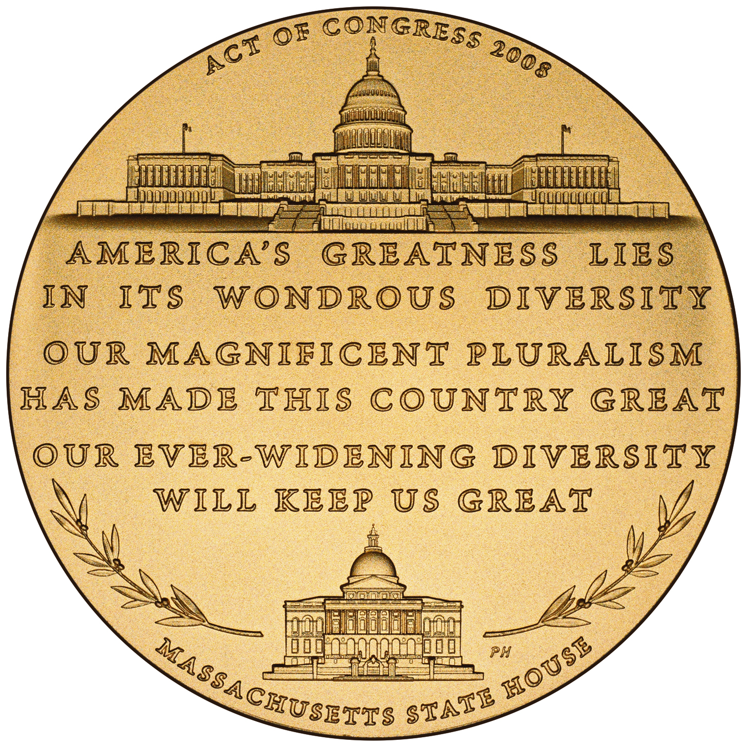 Bronze duplicate, Congressional Gold Medal Edward William Brook (reverse)